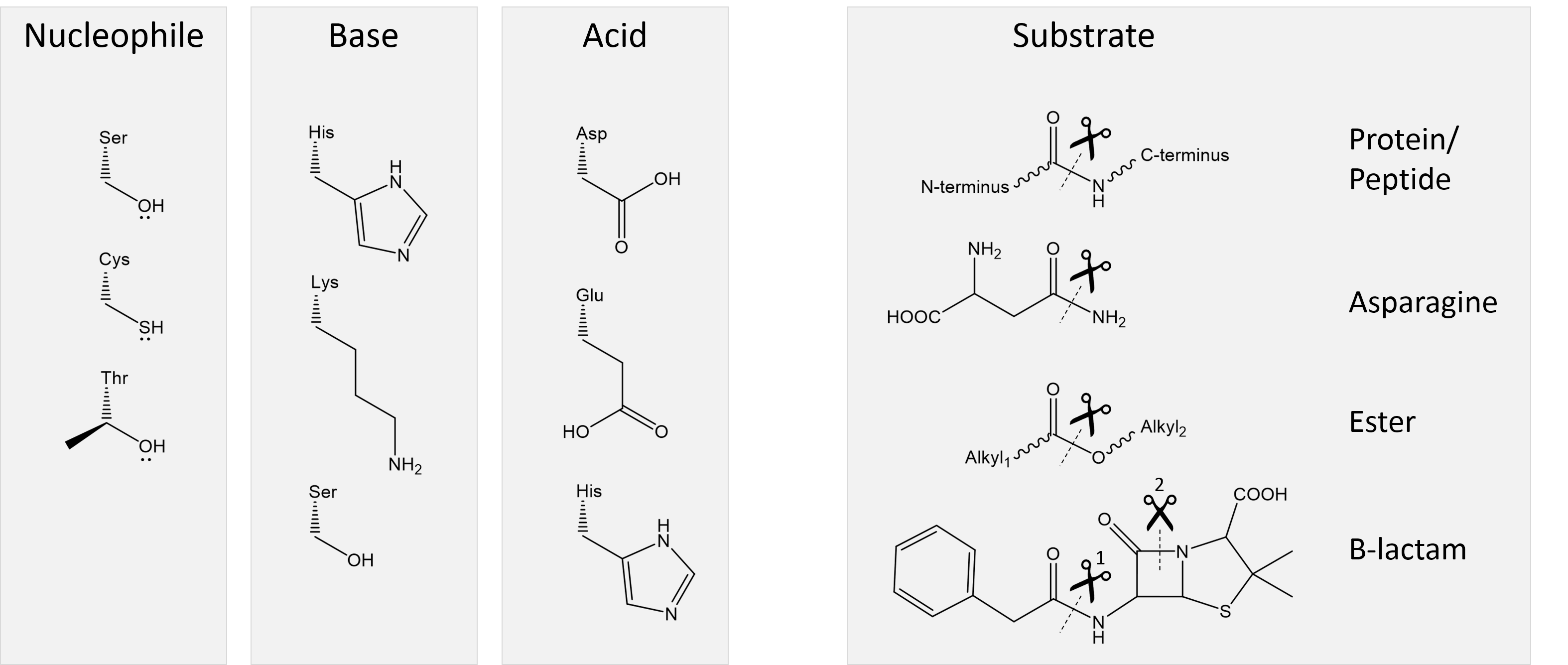 The range of amino acid residues used in different combinations in different enzymes to make up a catalytic triad for hydrolysis. On the left are the nucleophile, base and acid triad members. On the right are different substrates with the cleaved bond indicated by a pair of scissors. Two different bonds in beta-lactams can be cleaved (1 by penicillin acylase and 2 by beta-lactamase)